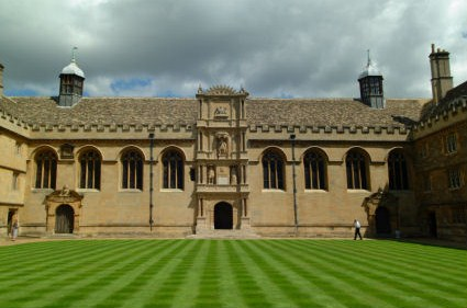 A picture of Wadham College, Oxford. Please replace the current main picture of the college with this more attractive one.